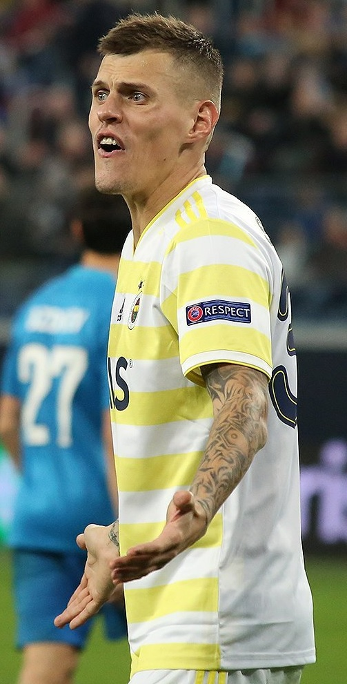 Martin Škrtel with Fenerbahçe during the Europa League game against FC Zenit Saint Petersburg.